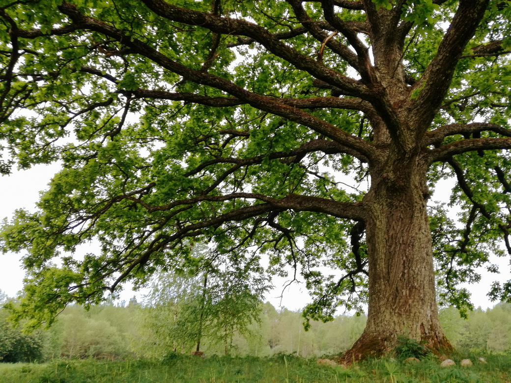 Norica_Big_oak